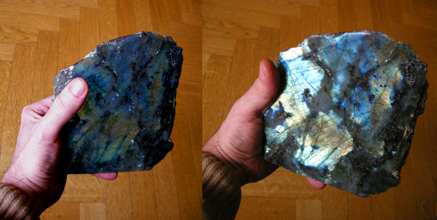 Adularescence or labradorescense (Schiller effect) on a specimen of labradorite.